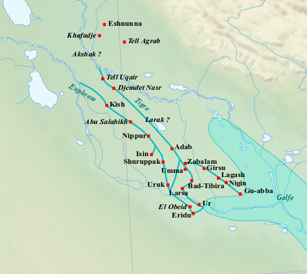 Map of the main cities of Lower Mesopotamia during the Early Dynastic period, with the approximate course of the rivers and the ancient shoreline of the Gulf.